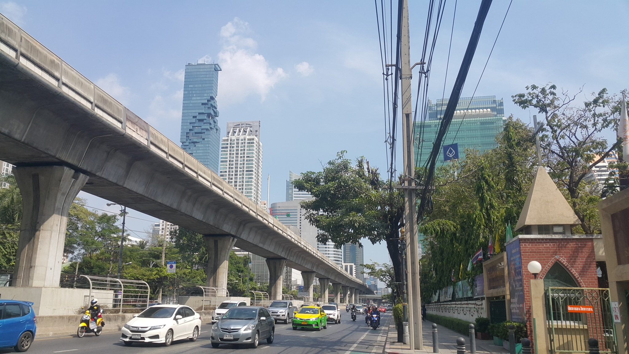 Sathon Road without the traffic congestion, 2017